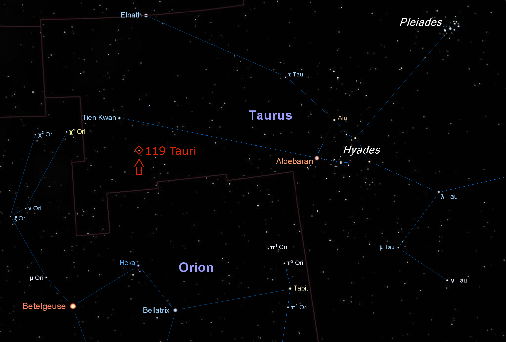 Location of 119 Tauri, (CE Tauri) in the constellation Taurus.